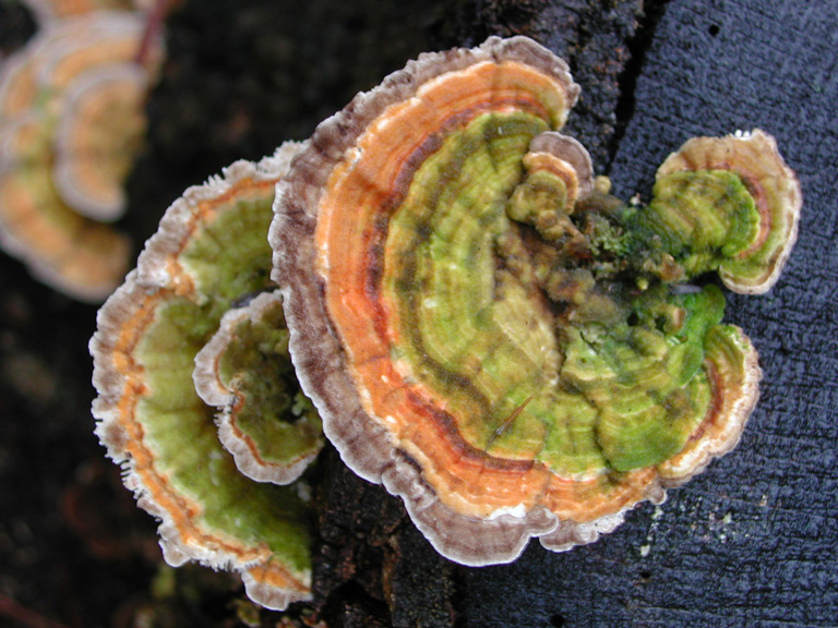 Very colorful example of shelf fungus on a South Carolina stump, most likely Trametes versicolor.